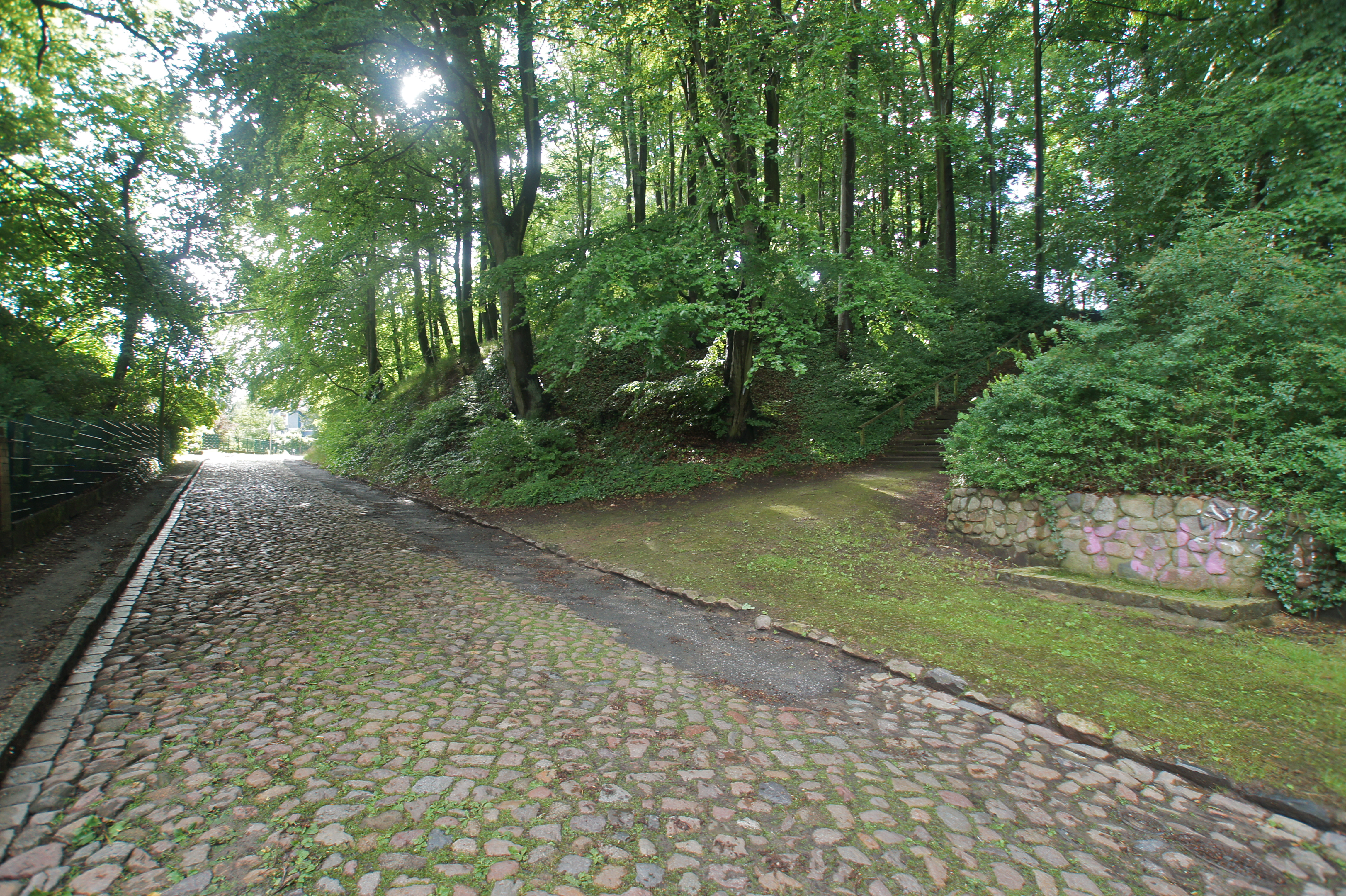 Hamburg (Rönneburg), Germany: Stairs toward the former castle